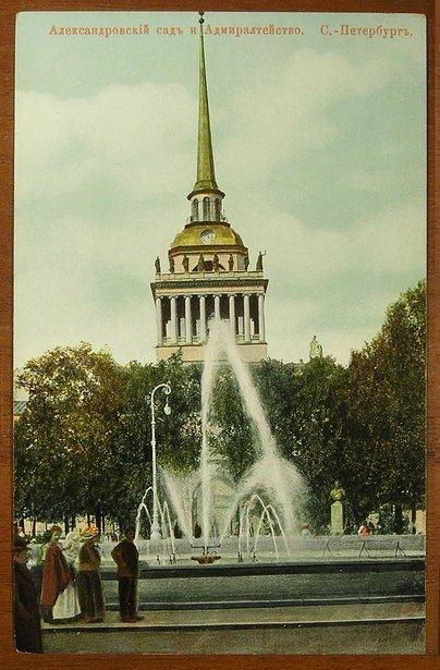 Saint Petersburg (Russia), Russian Admiralty.